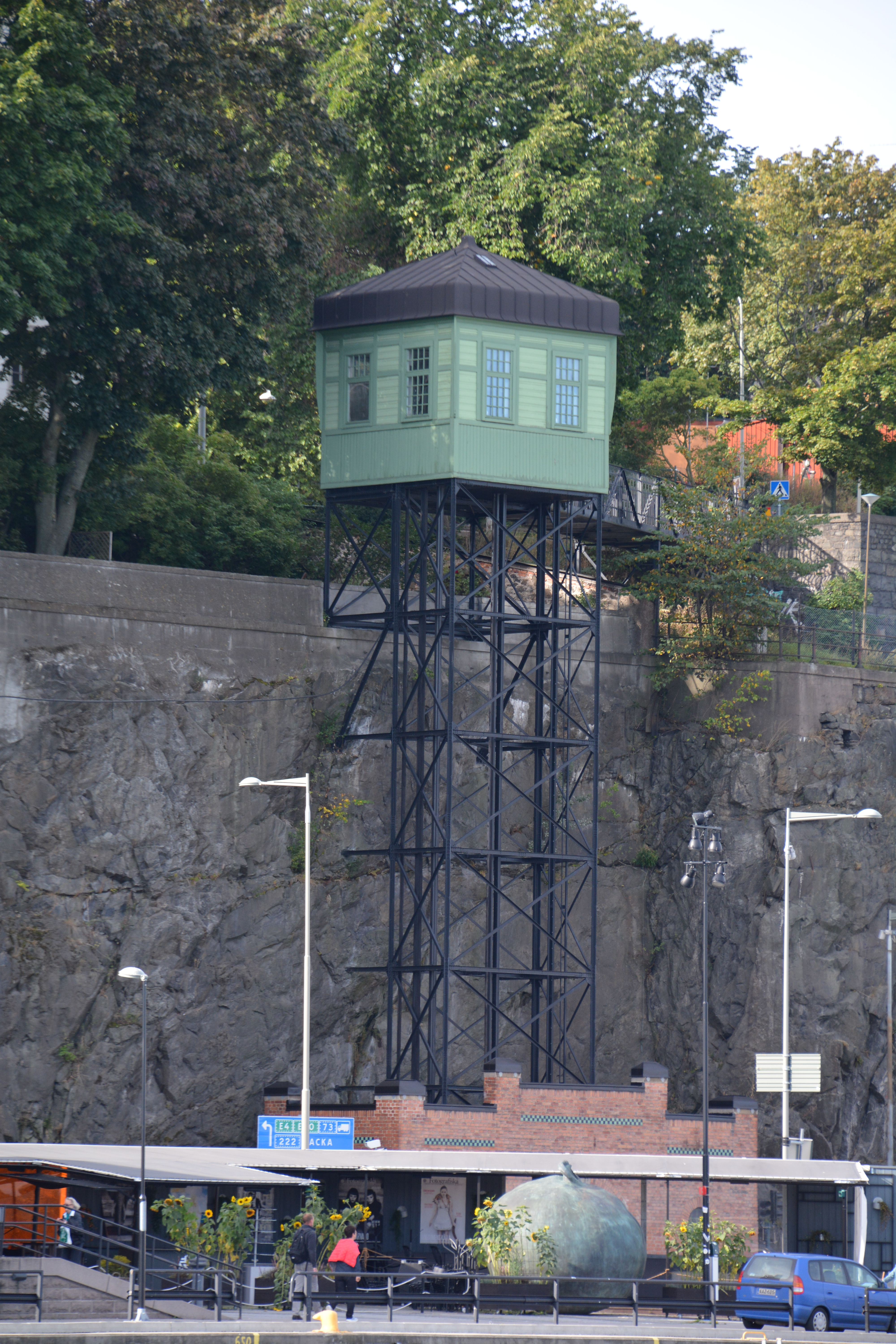 Stadsgårdshissen, Stockholm